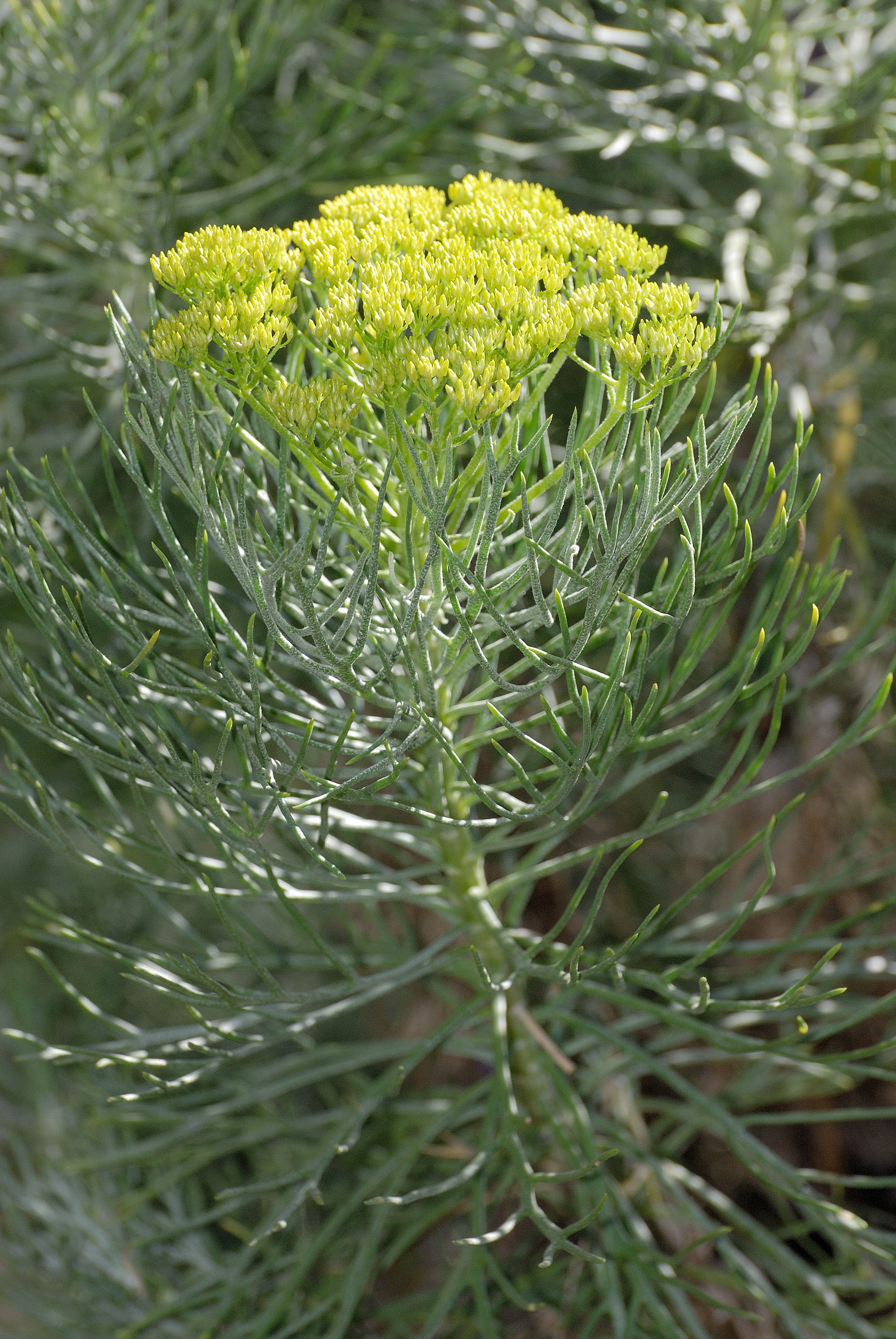 Coulter-bush in Jan Celliers Park, Pretoria. It is indigenous to the Western Cape and western Northern Cape provinces of South Africa.